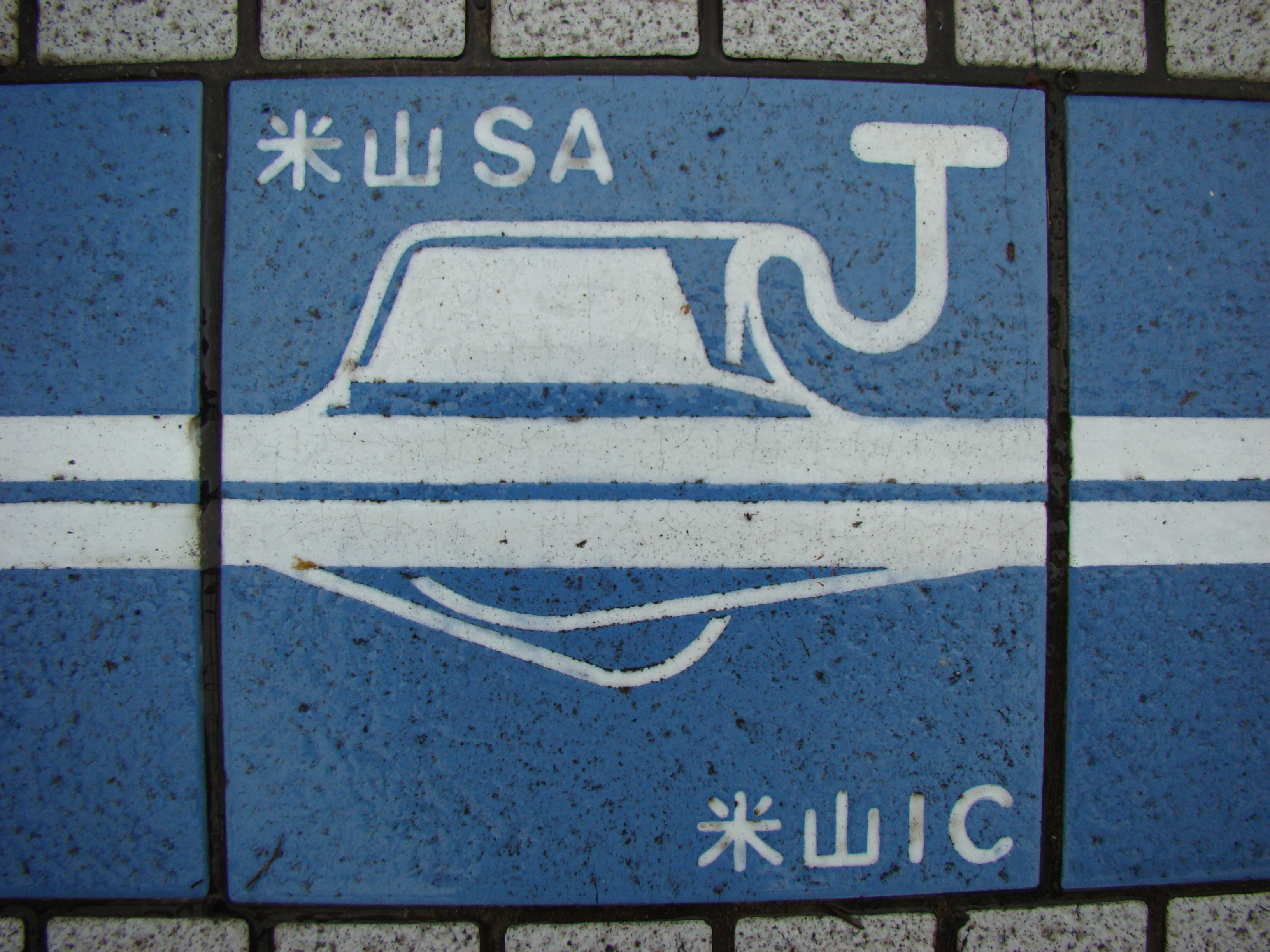 The tile which designed a shape of the Yoneyama Interchange（Hokuriku Expressway）（There is this tile in Hokuriku Expressway Nadachi-Tanihama Service Area.）. Place - Chayagahara,Joetsu City,Niigata Prefecture,Japan Date - August 9, 2009 Format - JPEG, 3264x2448pixel, 24bit colors. Photographer - NALA Wiki (talk)